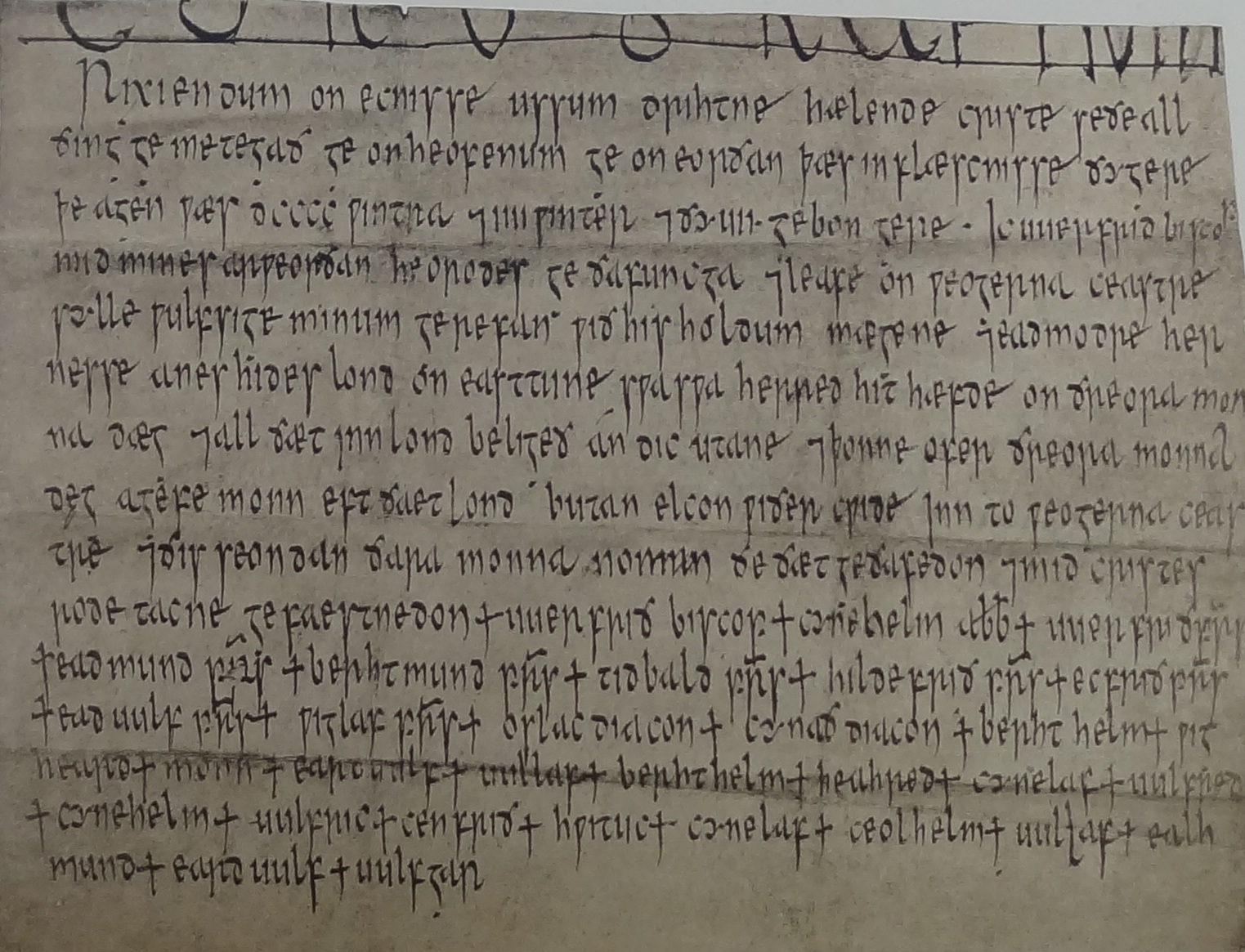 Charter S 1281, Add 17971, dated 904, Werfrith Bishop of Worcester to Wulfsige, his reeve